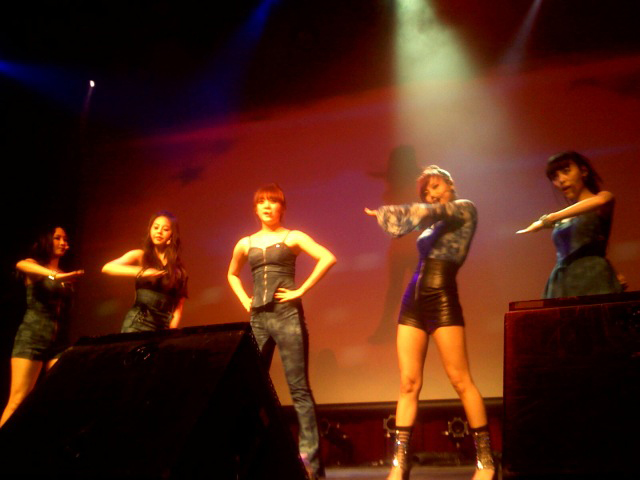 The Wonder Girls performing "Tell Me" for the Wonder World Tour at the Fillmore in San Francisco, CA.